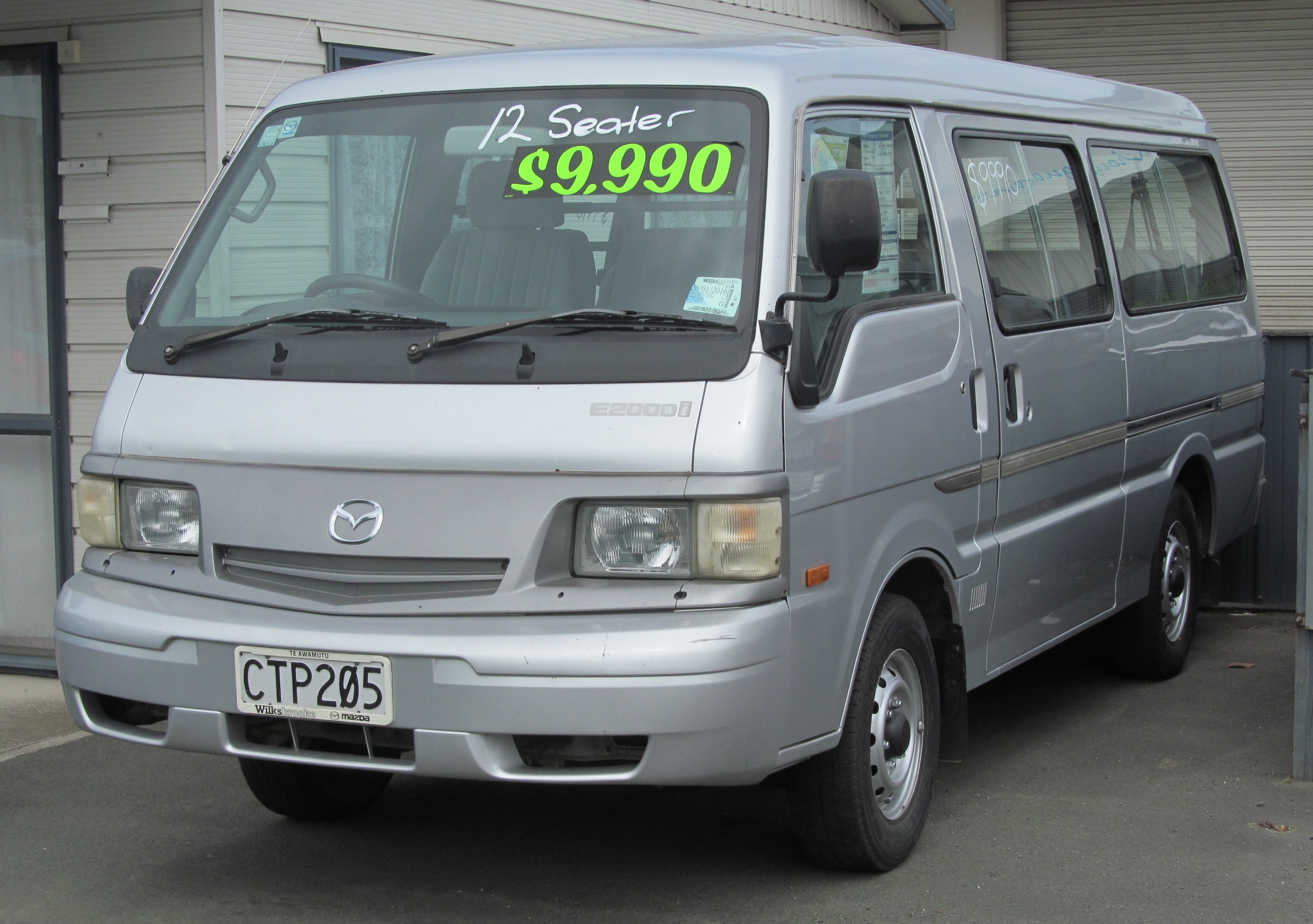 2005 Mazda E2000i LWB